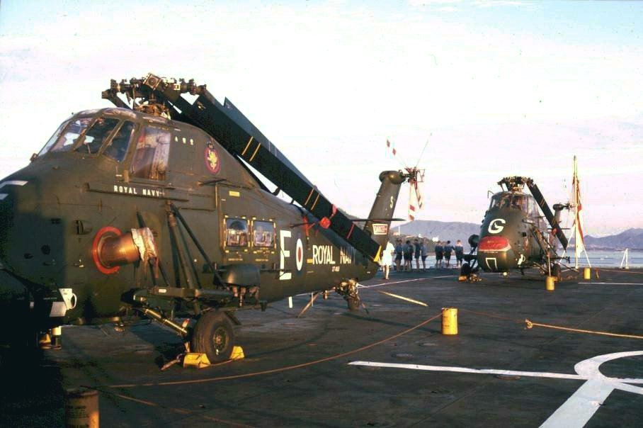 Two Royal Navy Westland Wessex helicopters in the flight deck of the amphibious transport dock ship HMS Intrepid (L11) in 1968.